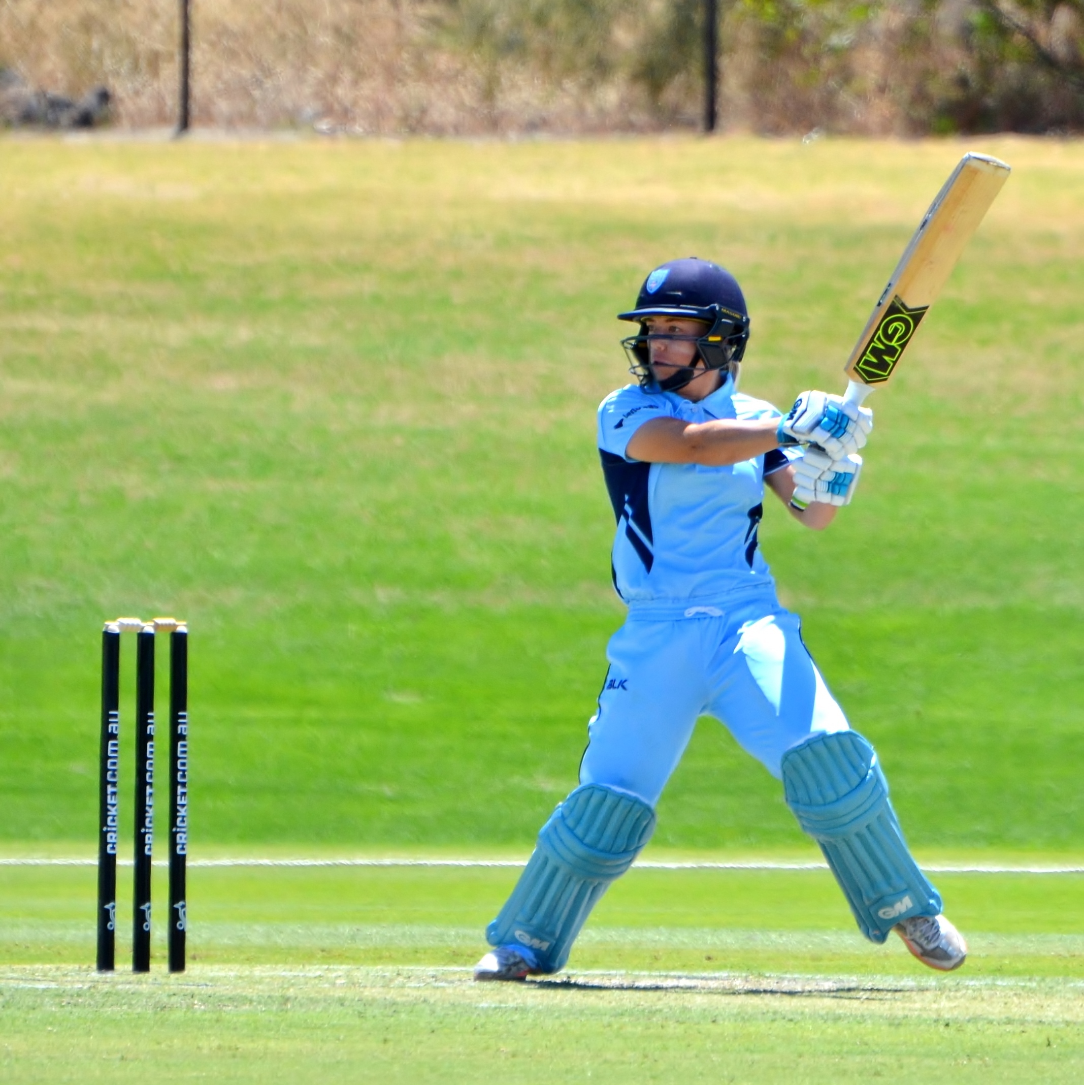 New South Wales Breakers all-rounder Naomi Stalenberg on her way to a total of 23 runs against the ACT Meteors, in a WNCL top of the table clash at Murdoch University Sports Oval in Perth.